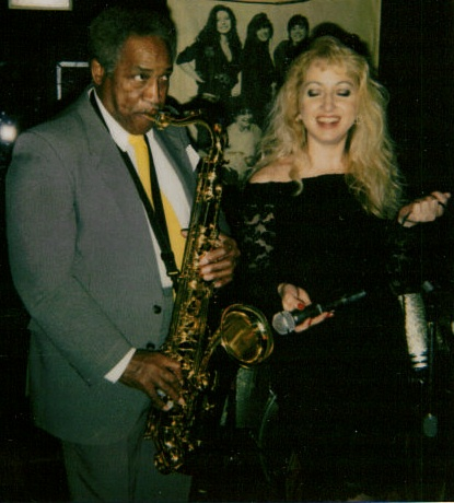 von freeman & catherine whitney